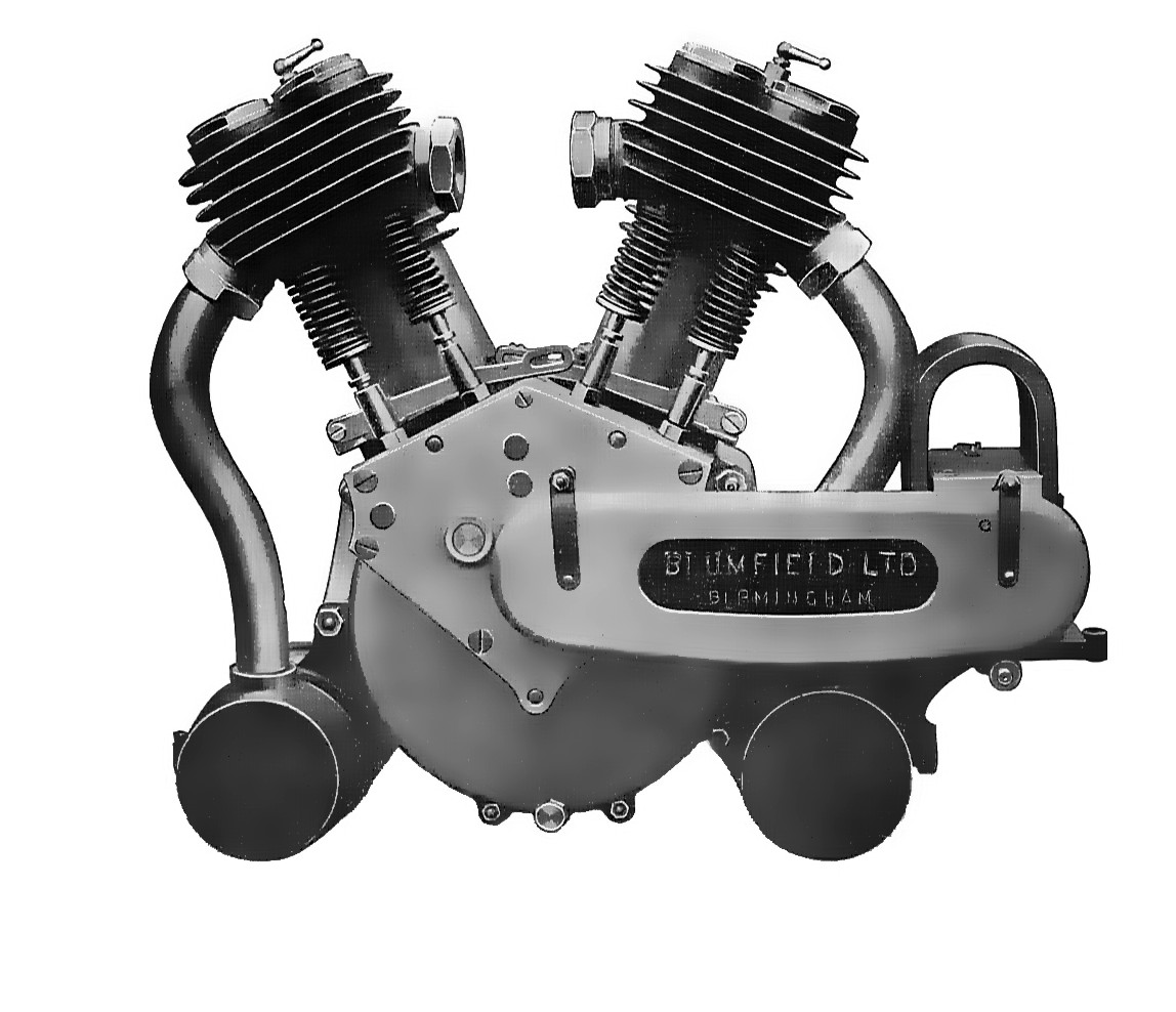 Fig. 188 Blumfield V-twin motorcycle engine Scans from 'The Book of the Motor Car', Rankin Kennedy C.E., 1912 See other images from this source in Scans from 'The Book of the Motor Car'